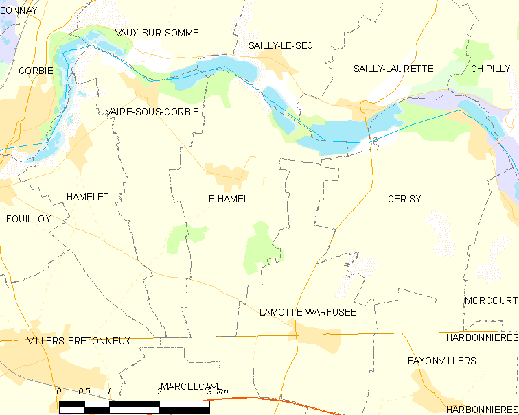 Map of French municipality Le Hamel